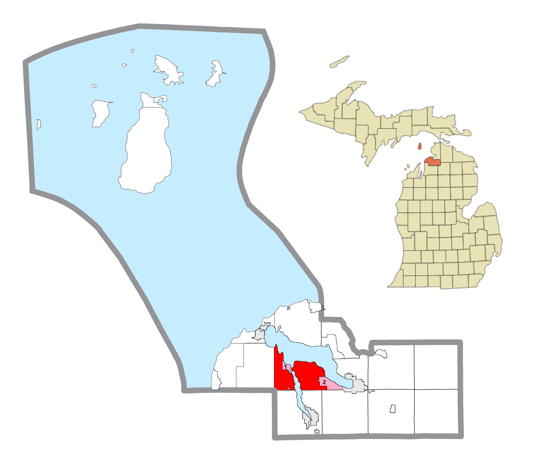 Evaline Township, MI